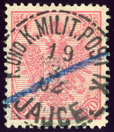 Bosnia 20 heller stamp, issue 1900, cancelled K.U.K.MILIT.POST IX JAJCE in 1902.